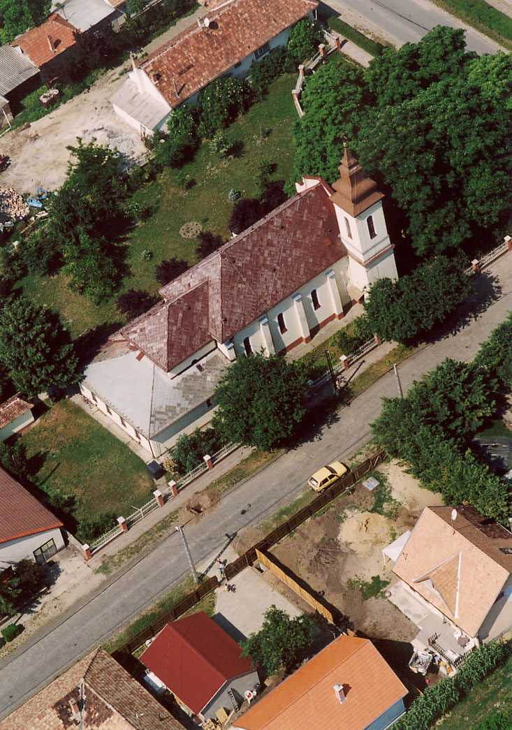 Dunavarsány - Hungary - Europe